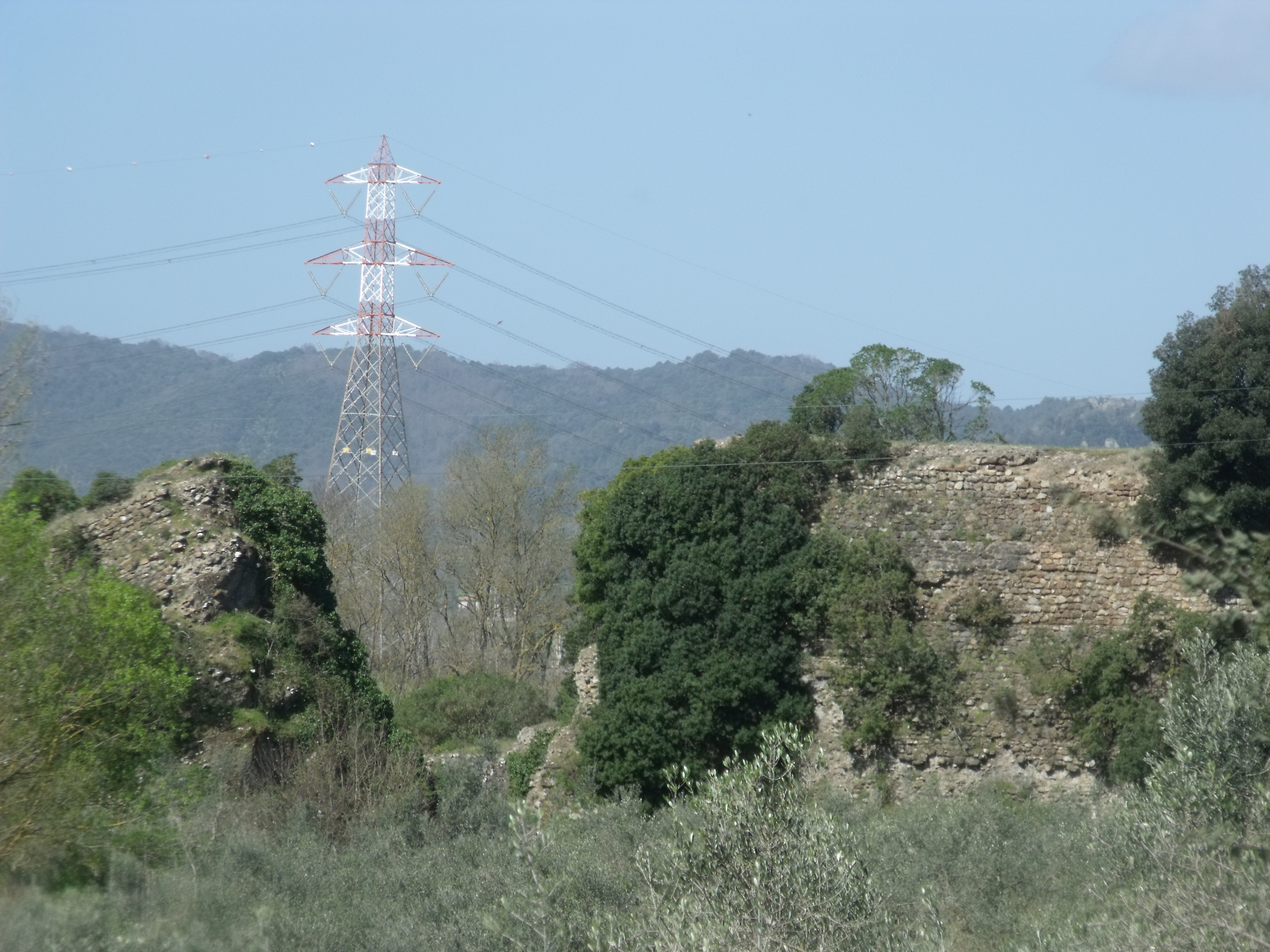 Ruins of the 1492 collapsed Dam on the Bruna River (Diga dei Muracci) between Ribolla (hamlet of Roccastrada) and Giuncarico (hamlet of Gavorrano) in the Maremma Area, Province of Grosseto, Tuscany, Italy